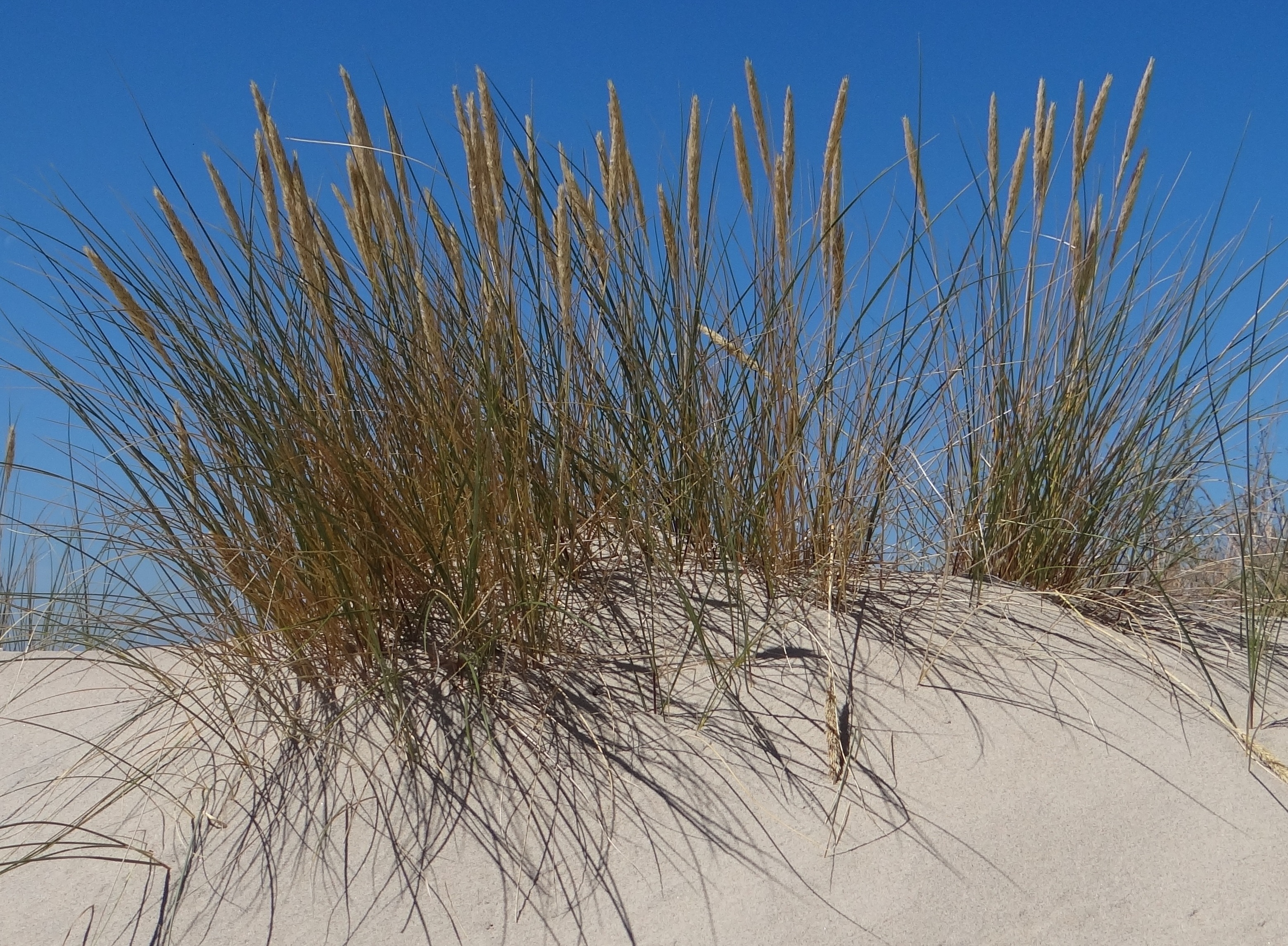 Ammophila arenaria